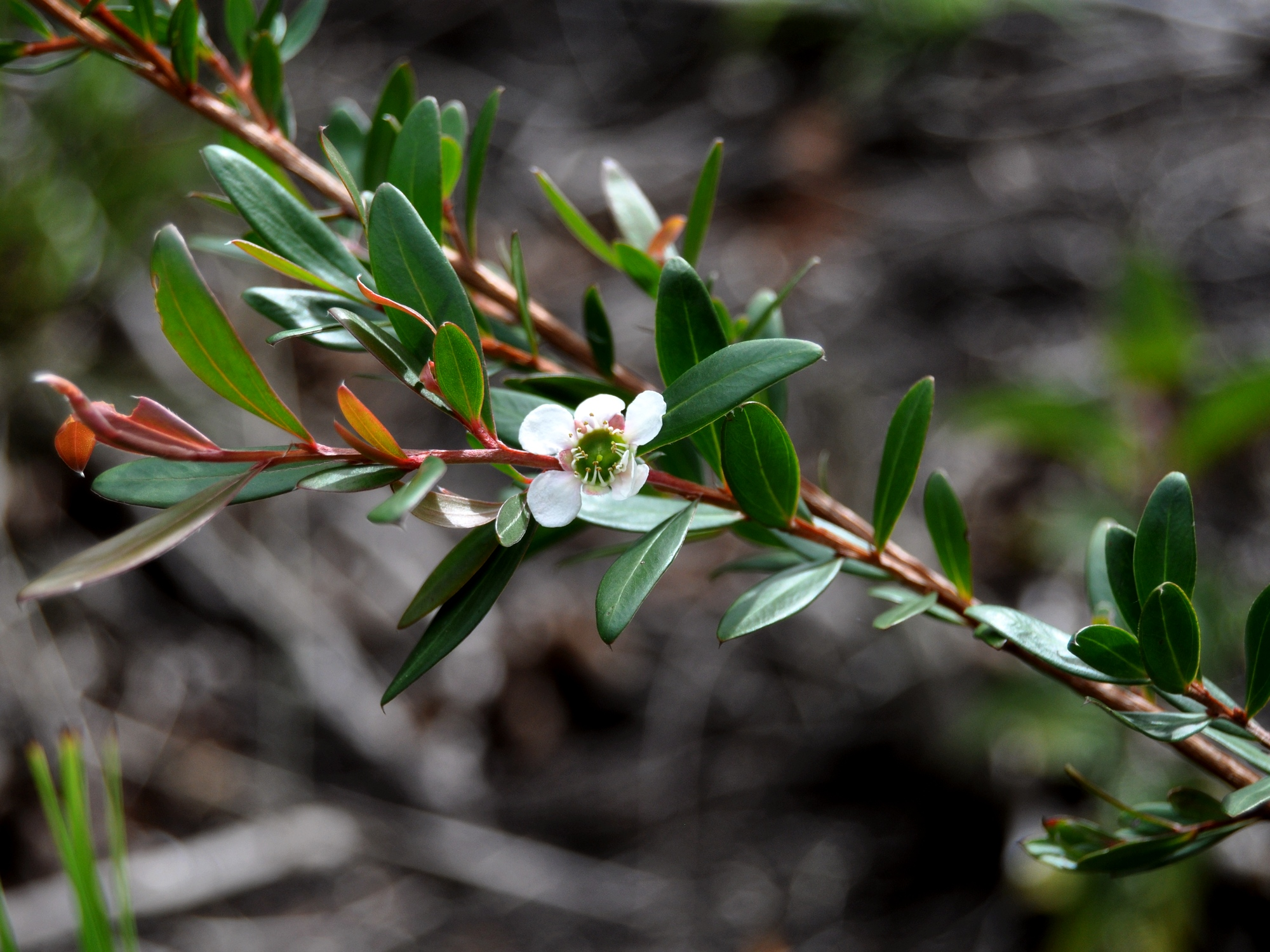 Leptospermum javanicum (syn. L. amboinense) flower close-up. North Sumatra, Indonesia. Alt. 1338 m asl.